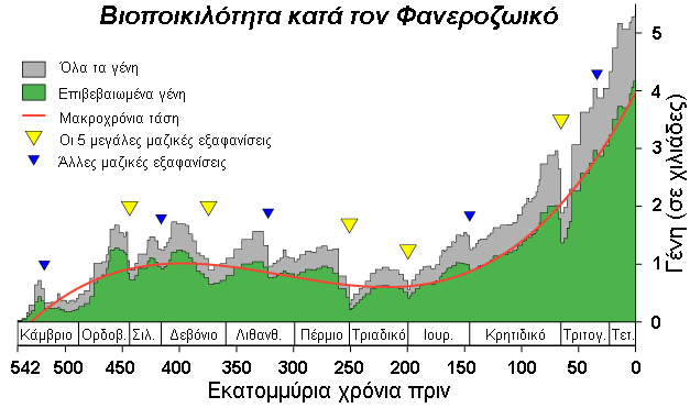 Phanerozoic biodiversity diagram